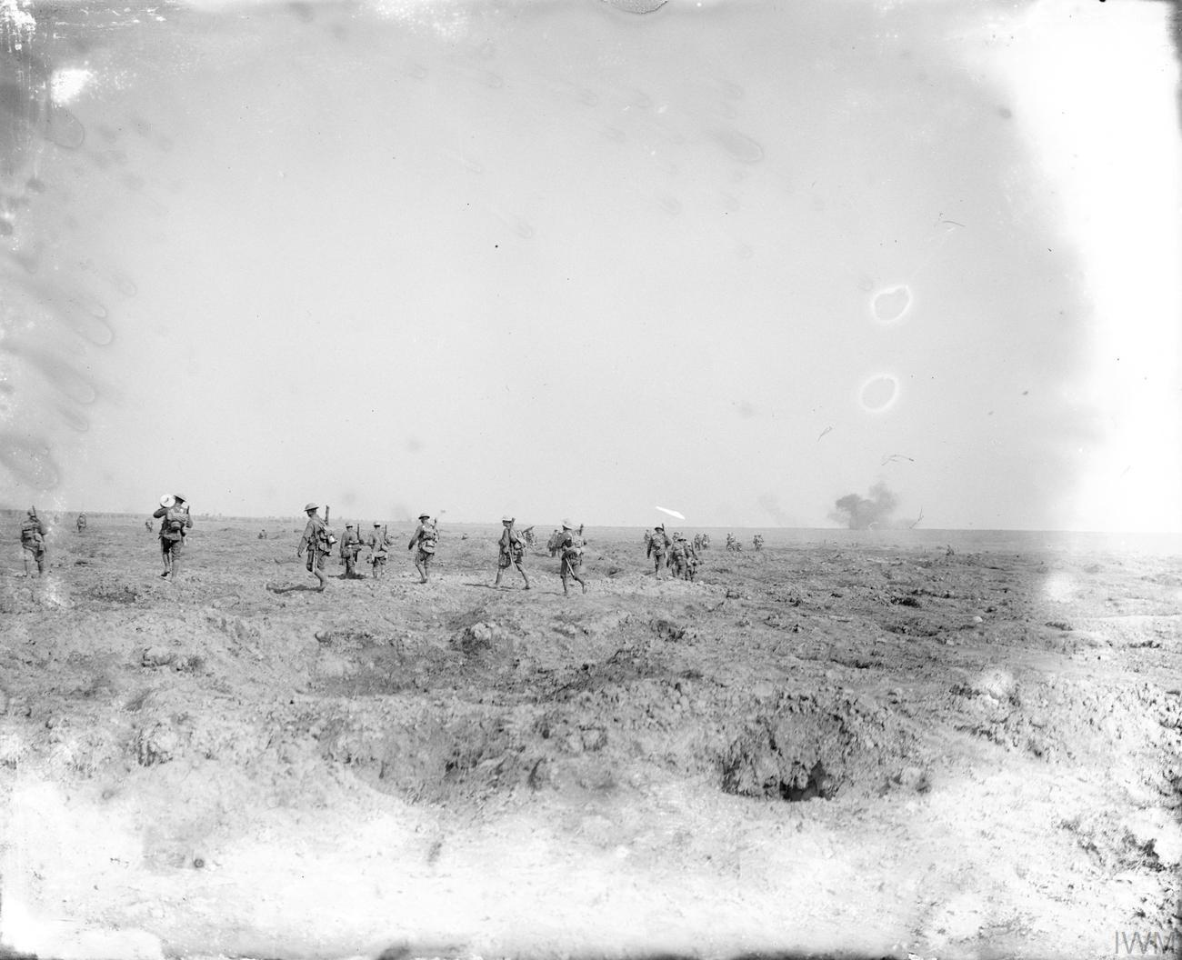 The Battle of the Somme, July-november 1916 Battle of Morval. 25-29 September. Troops of the 12th Battalion of the Gloucestershire Regiment ("Bristol's Own") moving up in support in open order near Ginchy. 25 September 1916.